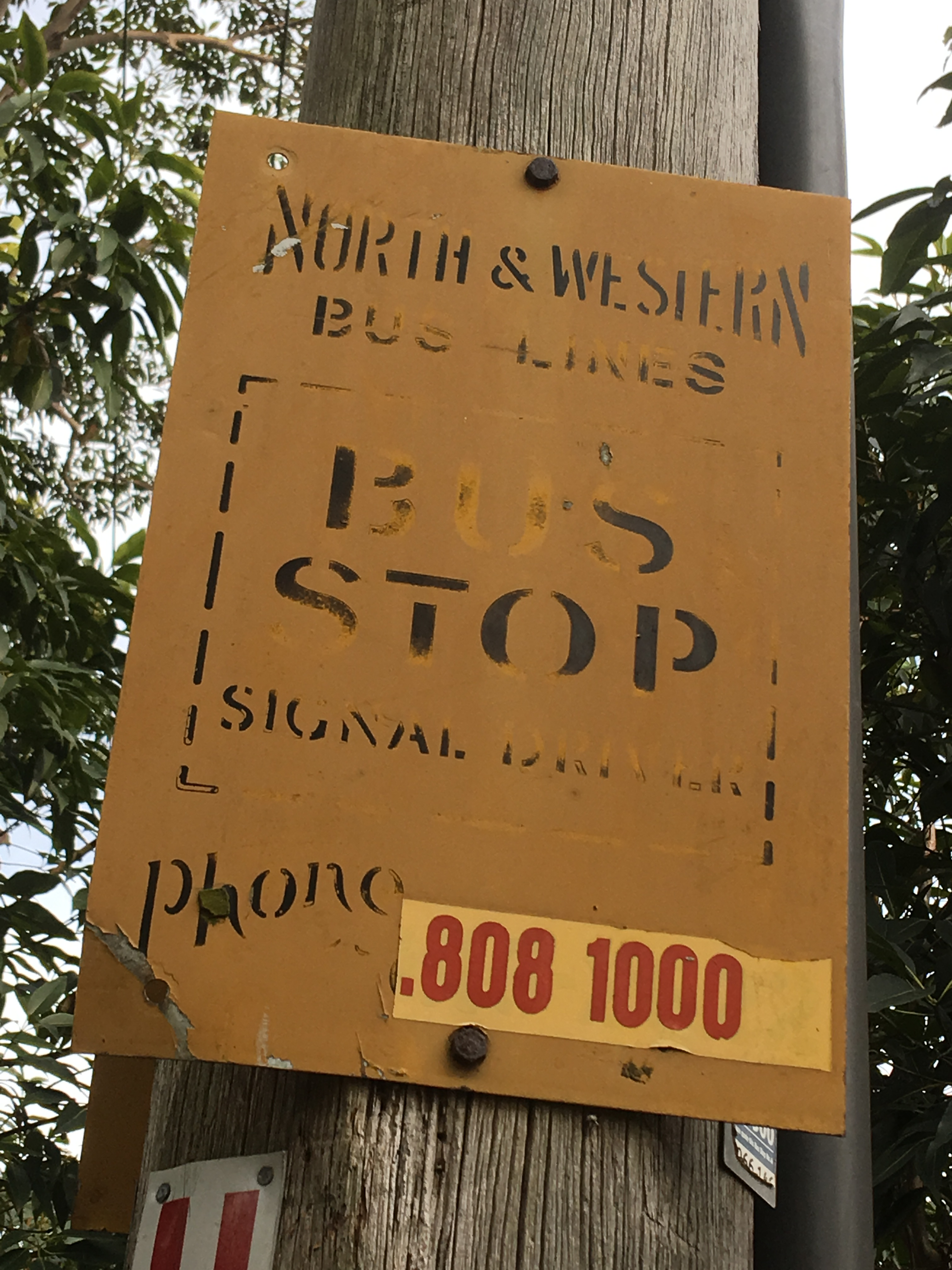 Remnant and disused bus stop sign belonging to North & Western Bus Lines in Lane Cove North on Nundah Street